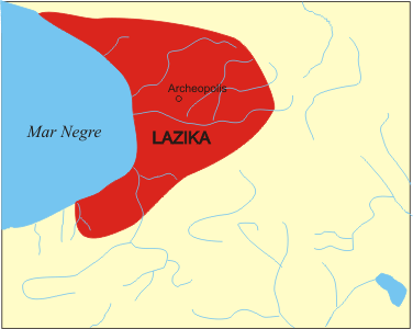 A laz kingdom